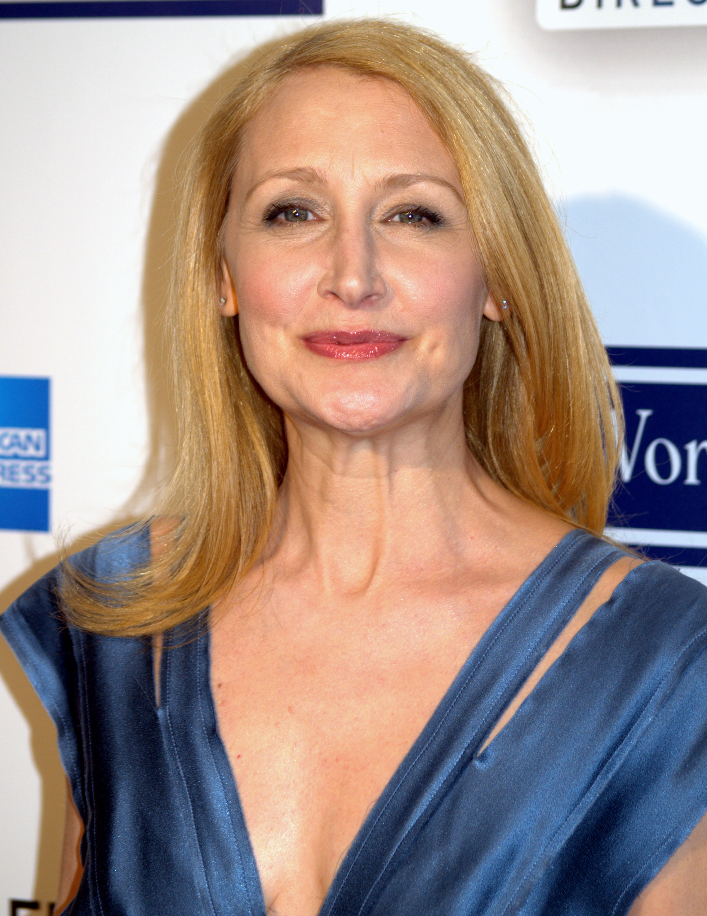 Patricia Clarkson at the 2009 Tribeca Film Festival premiere of Woody Allen's Whatever Works.